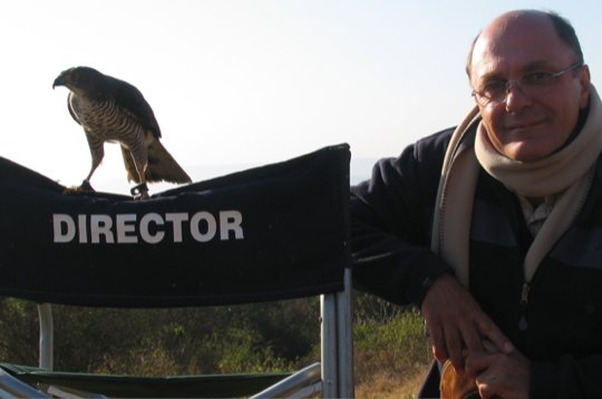 Mario Andreacchio on set in South Africa. Production: Elephant Tales.